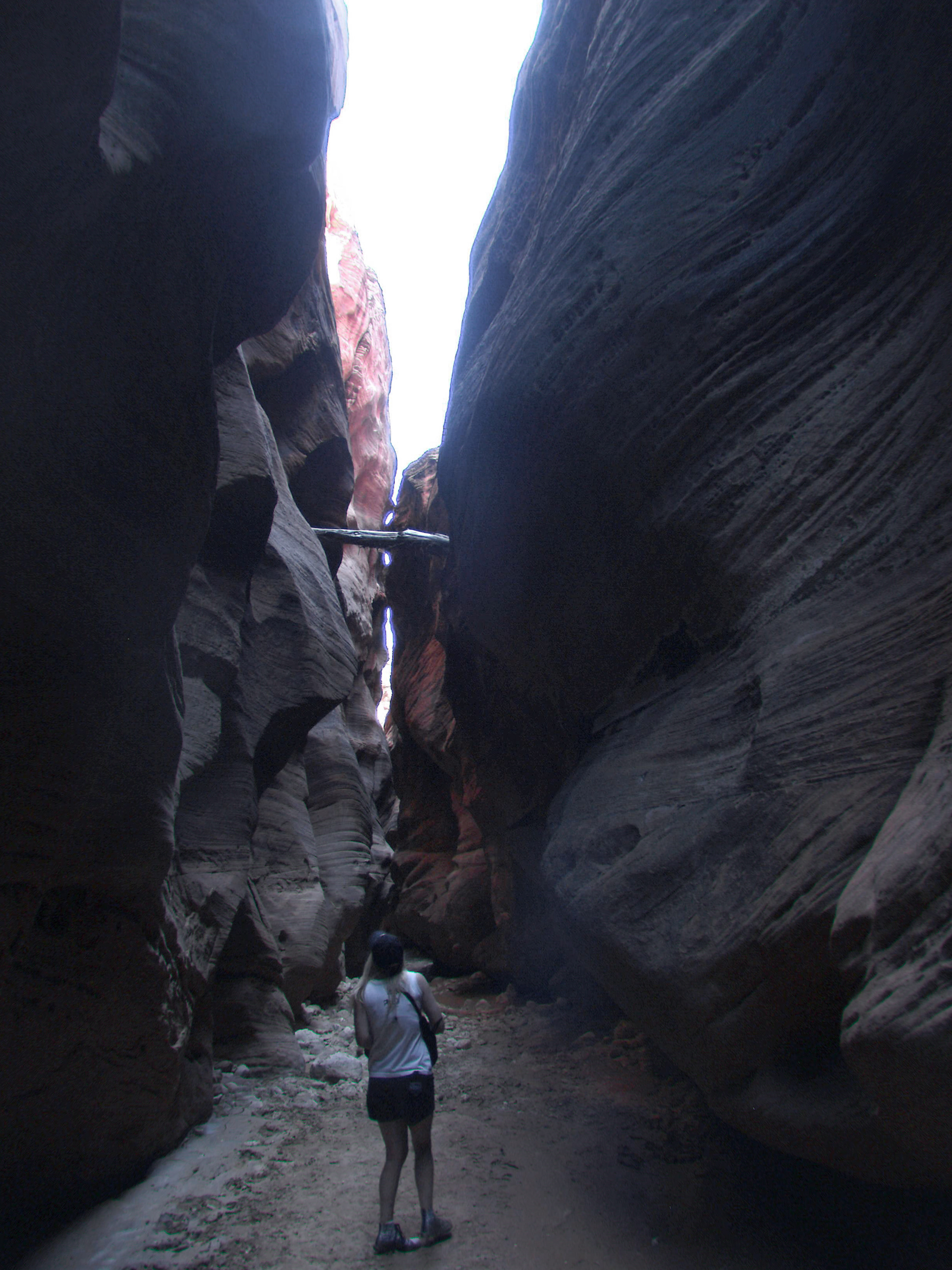 Buckskin Gulch narrows - A log is stuck about 40 feet up the narrow canyon